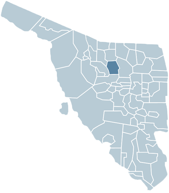 Map of the municipality of Cucurpe, Sonora.